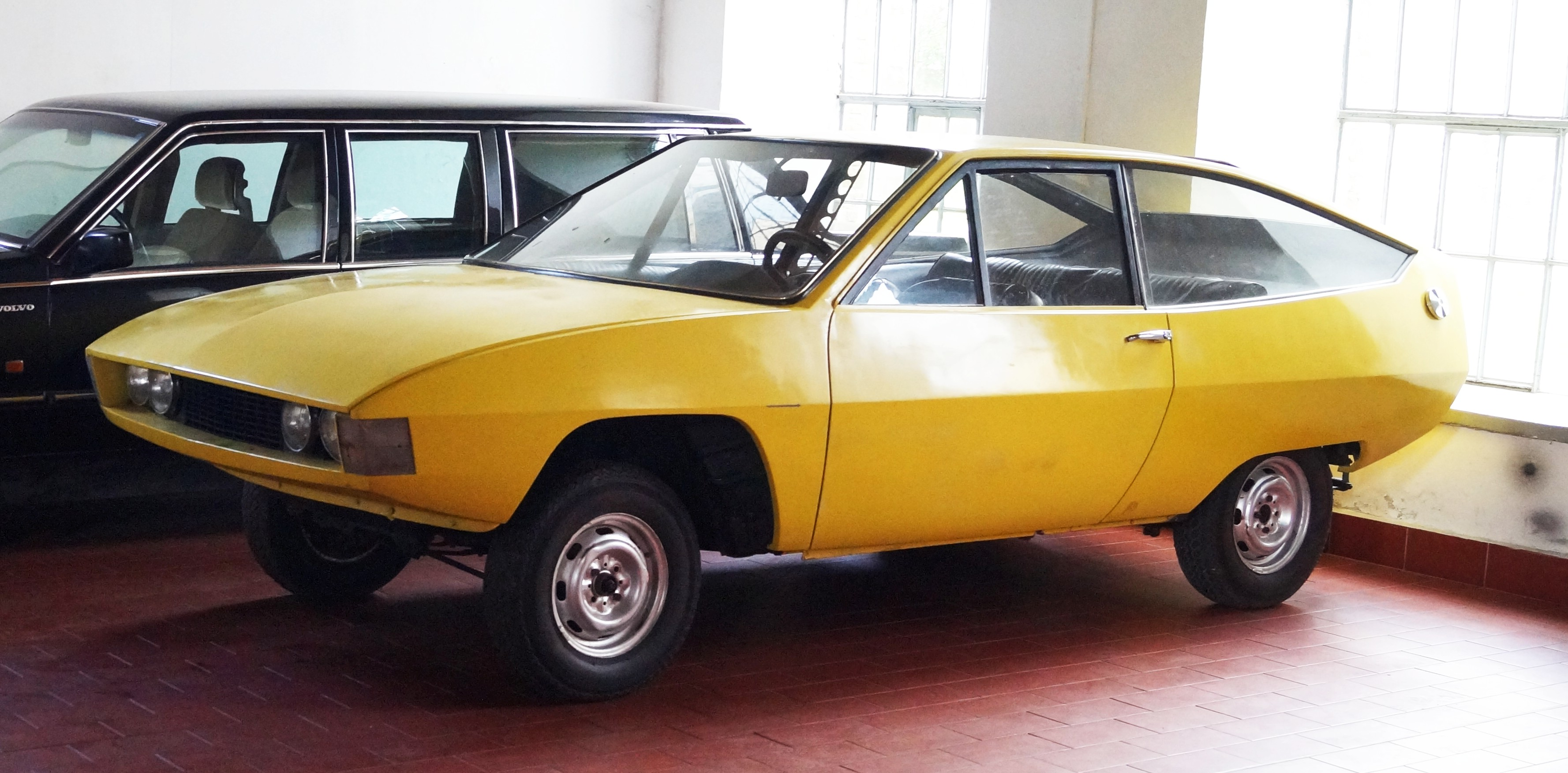 The making of this document was supported by Wikimedia Polska Association, within Wikigrant no. WG 2016-18. Polski Fiat 125p Coupé w Muzeum w Chlewiskach